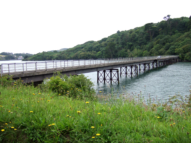 Poulgorm Bridge Unionhall Road bridge crossing above Glandore Harbour between Unionhall and Glandore. The bridge featured in Sir David Puttnam's 1994 film "War of the Buttons" directed by John Roberts.